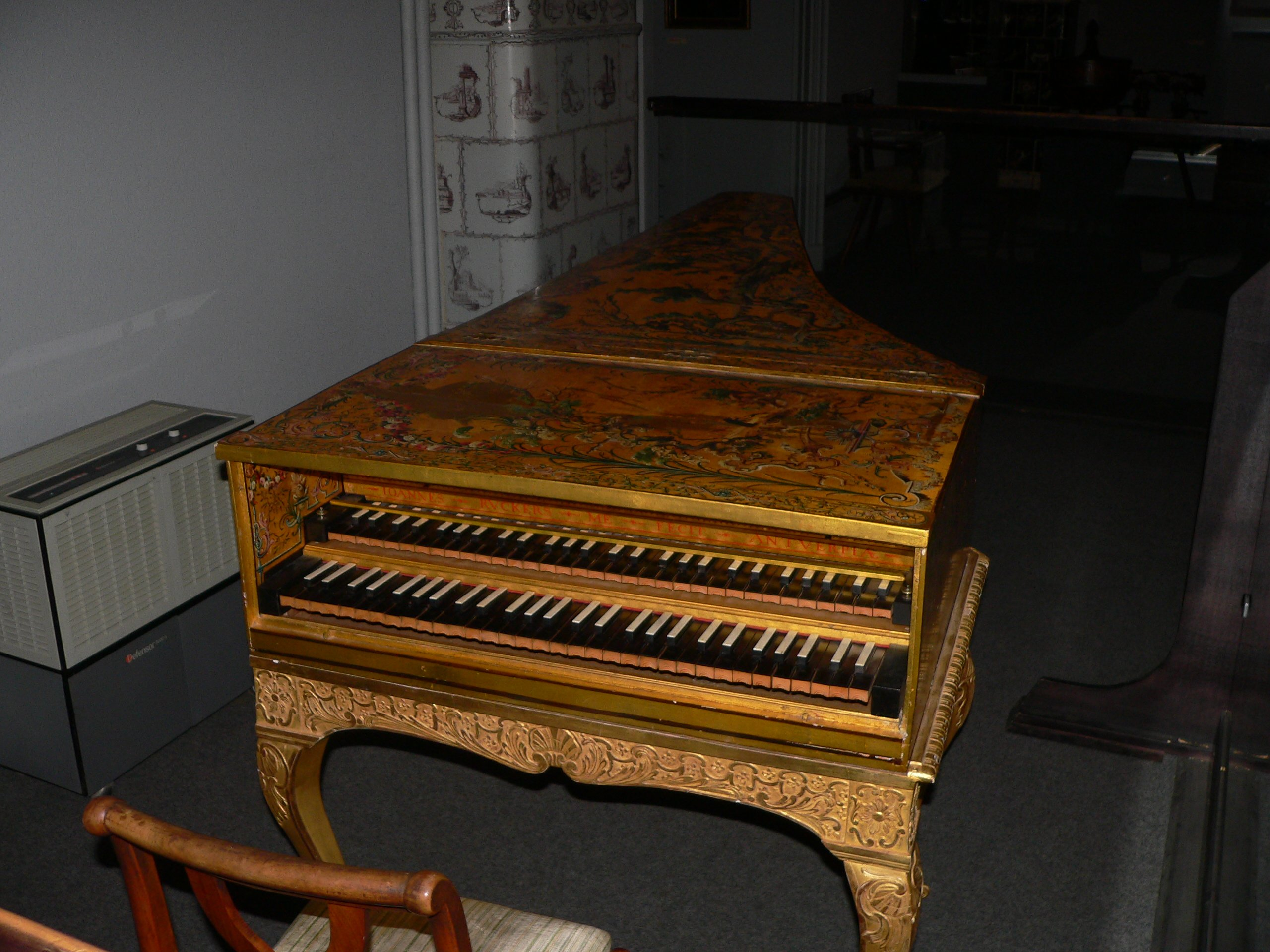 Harpsicord by Ioannes Ruckers (1632, later restauration) Range G-E Art and History museum in Neuchâtel, Switzerland.